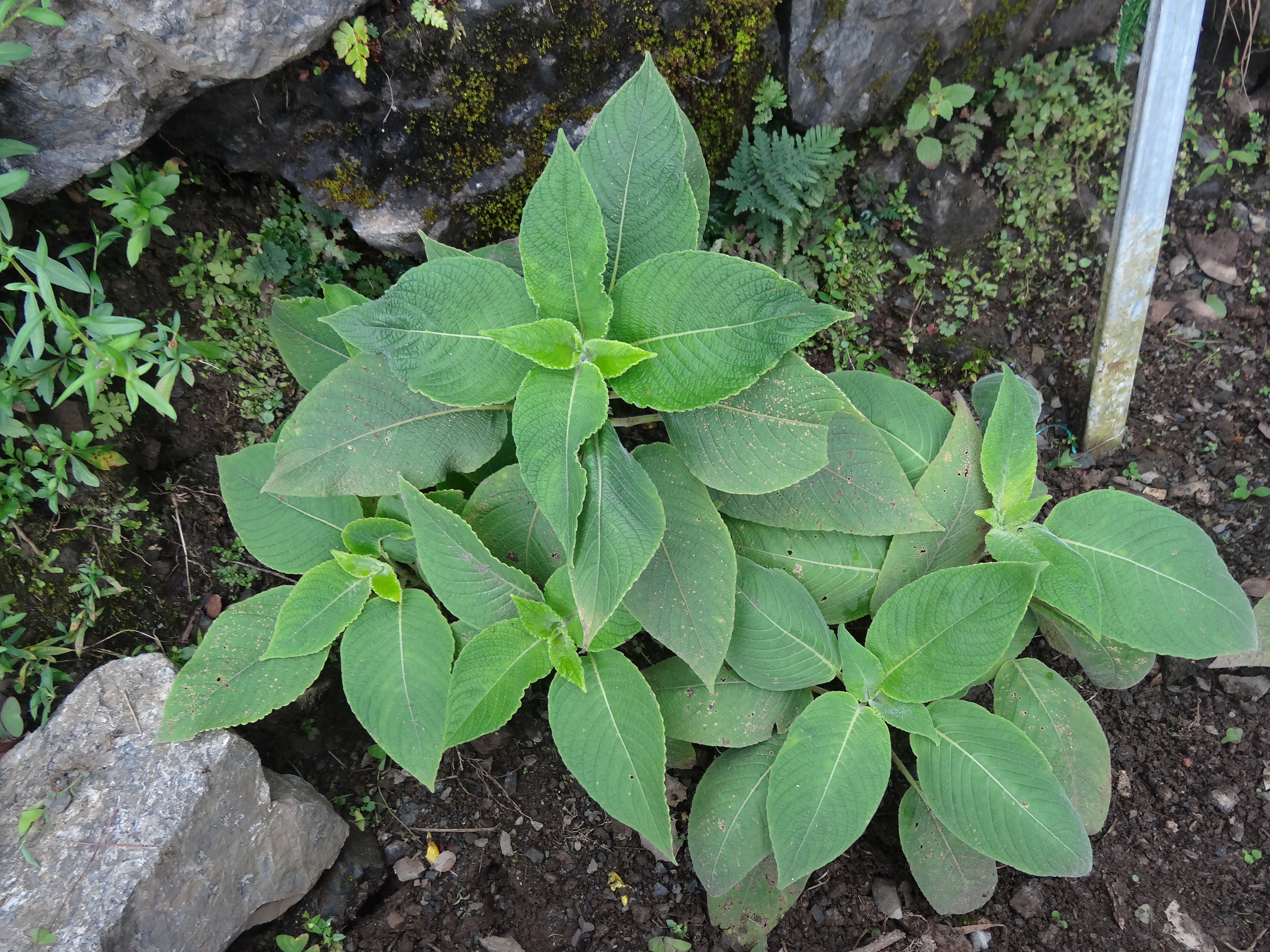 Aechmanthera gossypina. It is found in the altitude of 1000m to 2300 m. Picture take in Himalayan botanical gardens, Nainital.